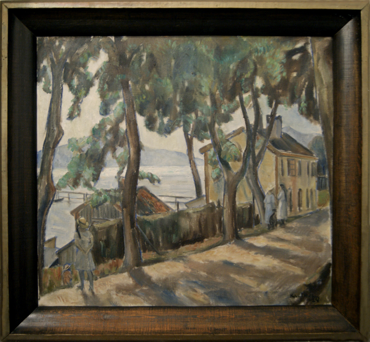 Halvard Hatlen (1899-1957) "Fjaerestua, Julsundvegen in Molde", oilpainting, 1924, 64x70cm